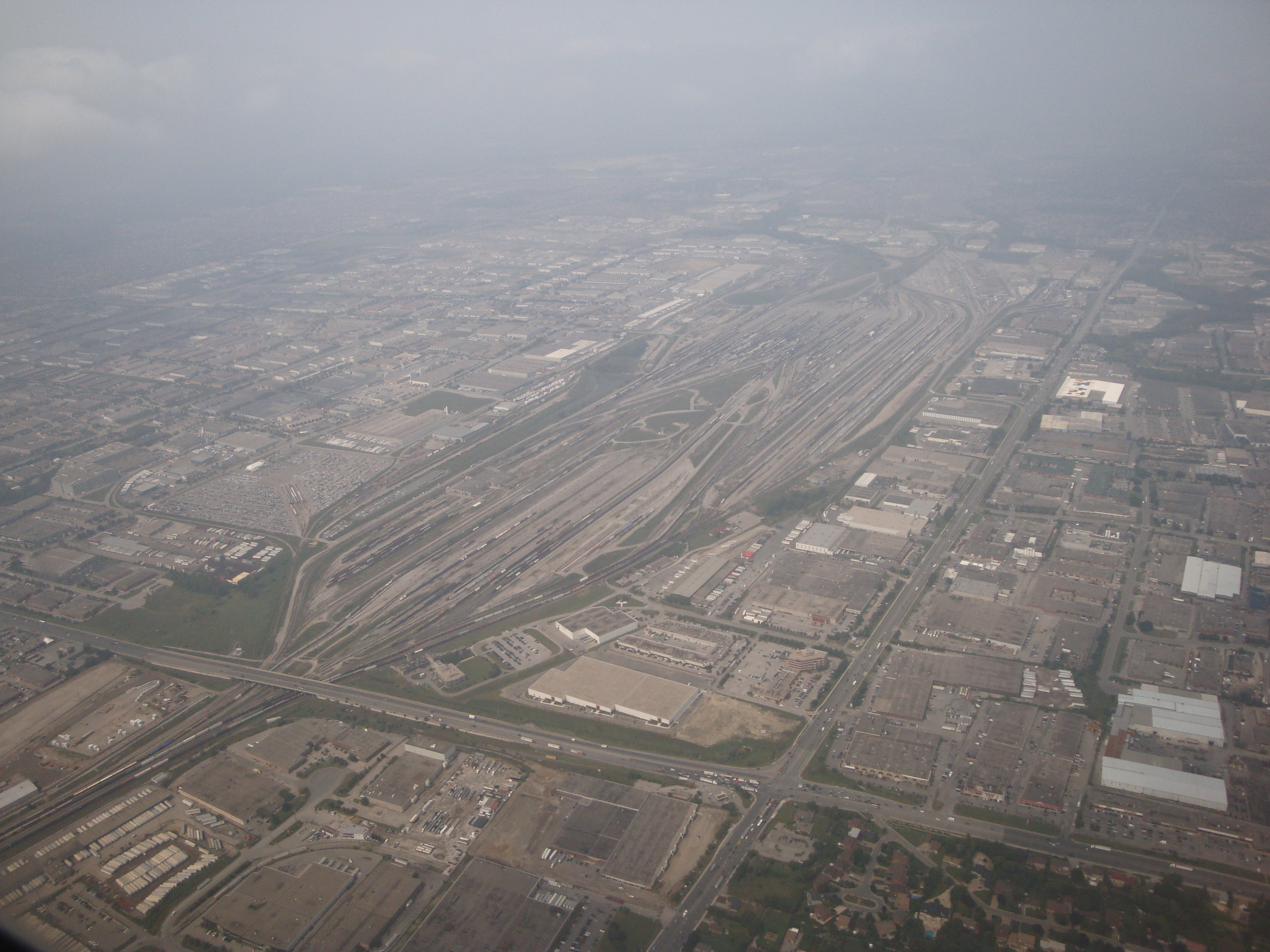 An aerial view of the MacMillan Yard in Concord, Ontario, it is the largest rail classification yard in Canada.